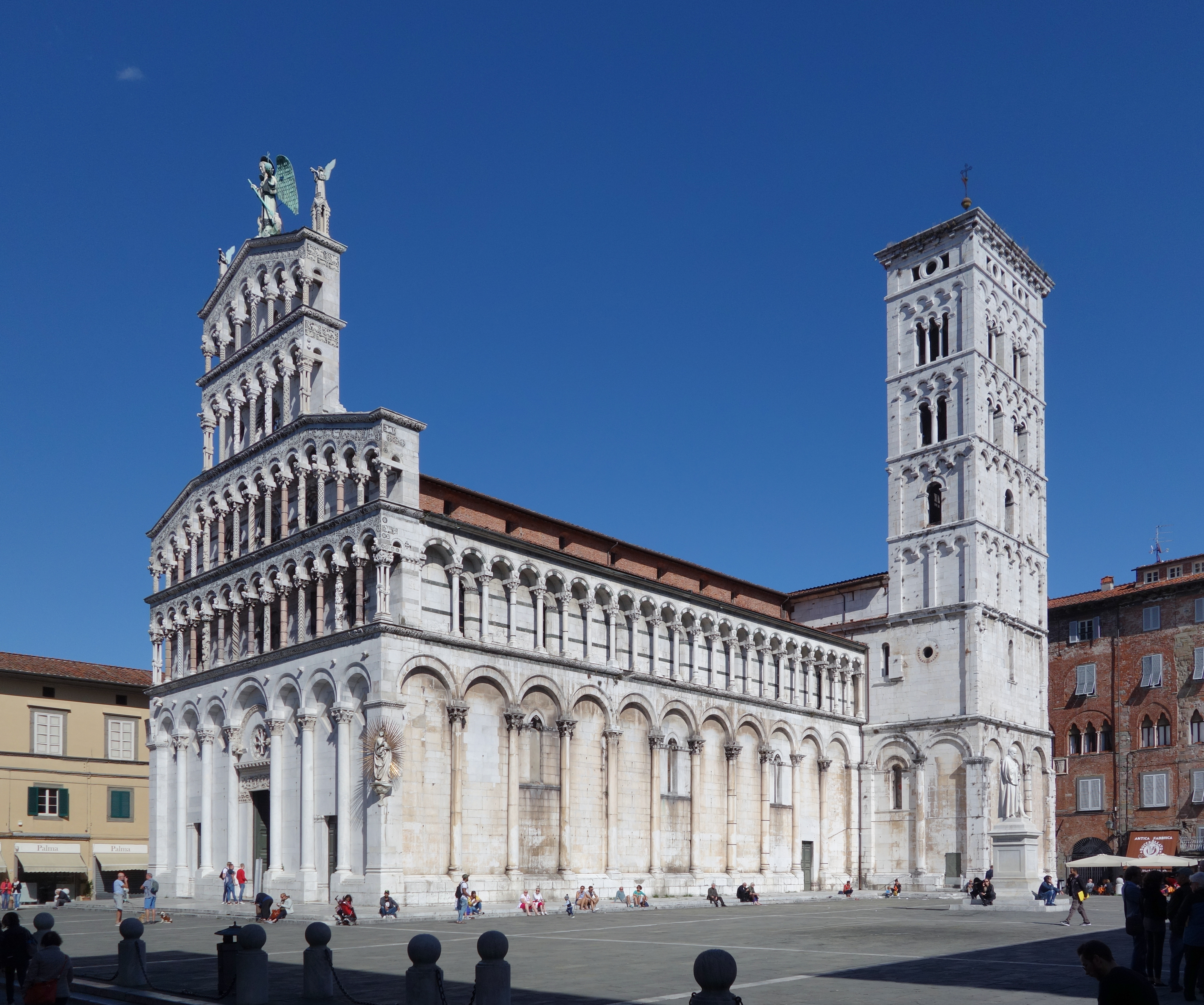 The church of San Michele in Foro as viewed from the Piazza San Michele in Lucca, Italy.